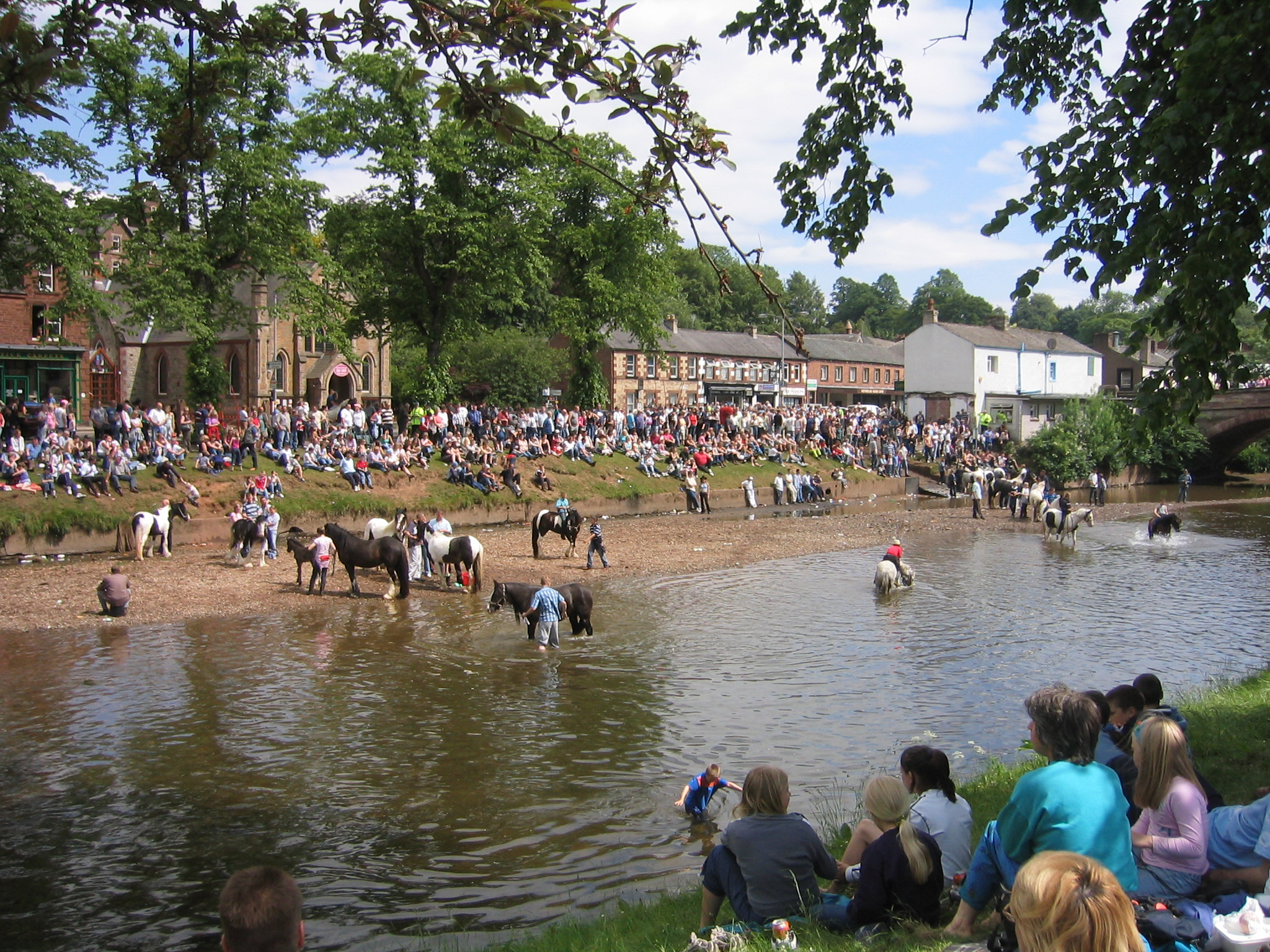 Washing the horses at Appleby Horse Fair, Cumbria.